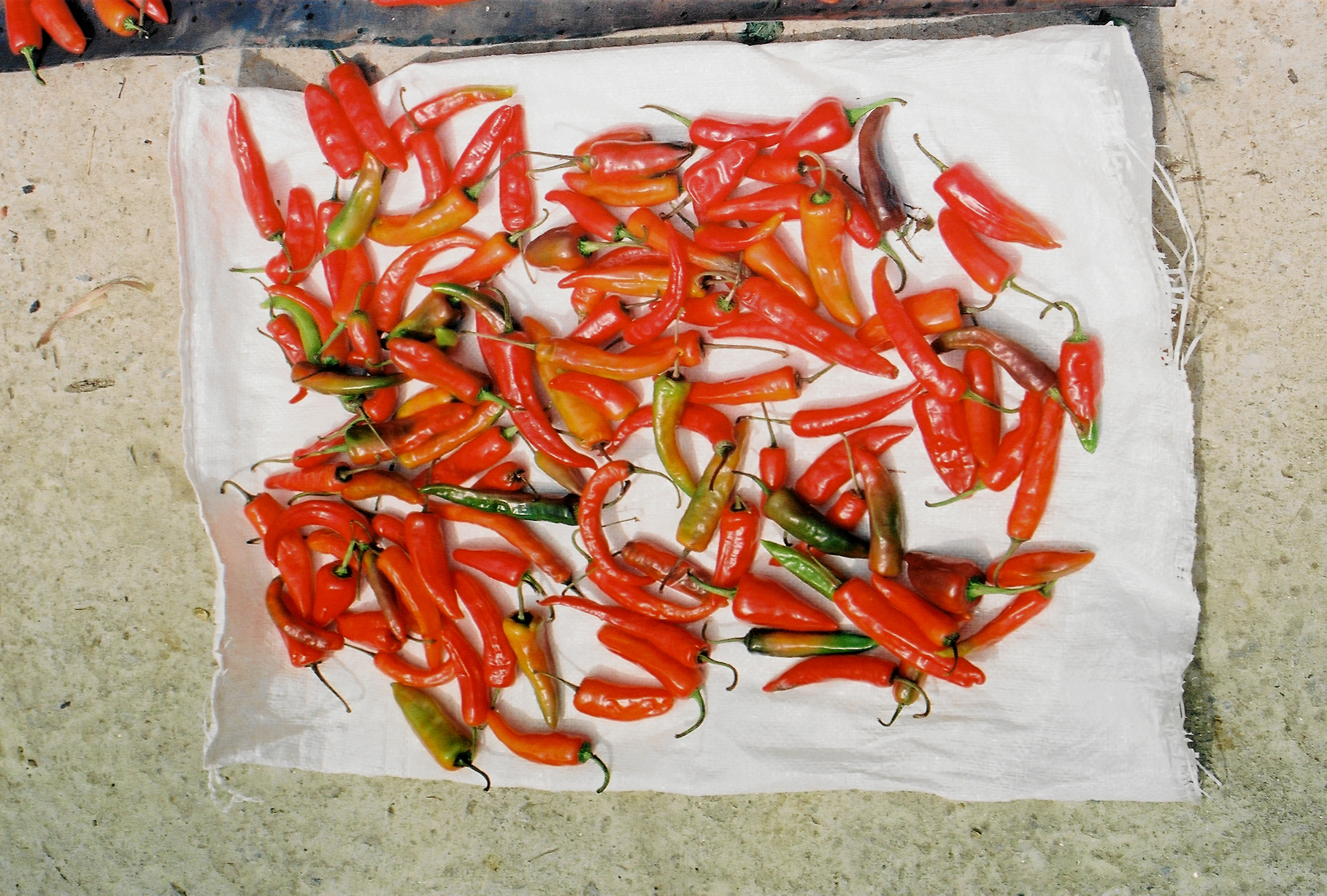 Bhutanese chilies. Thimpu market.